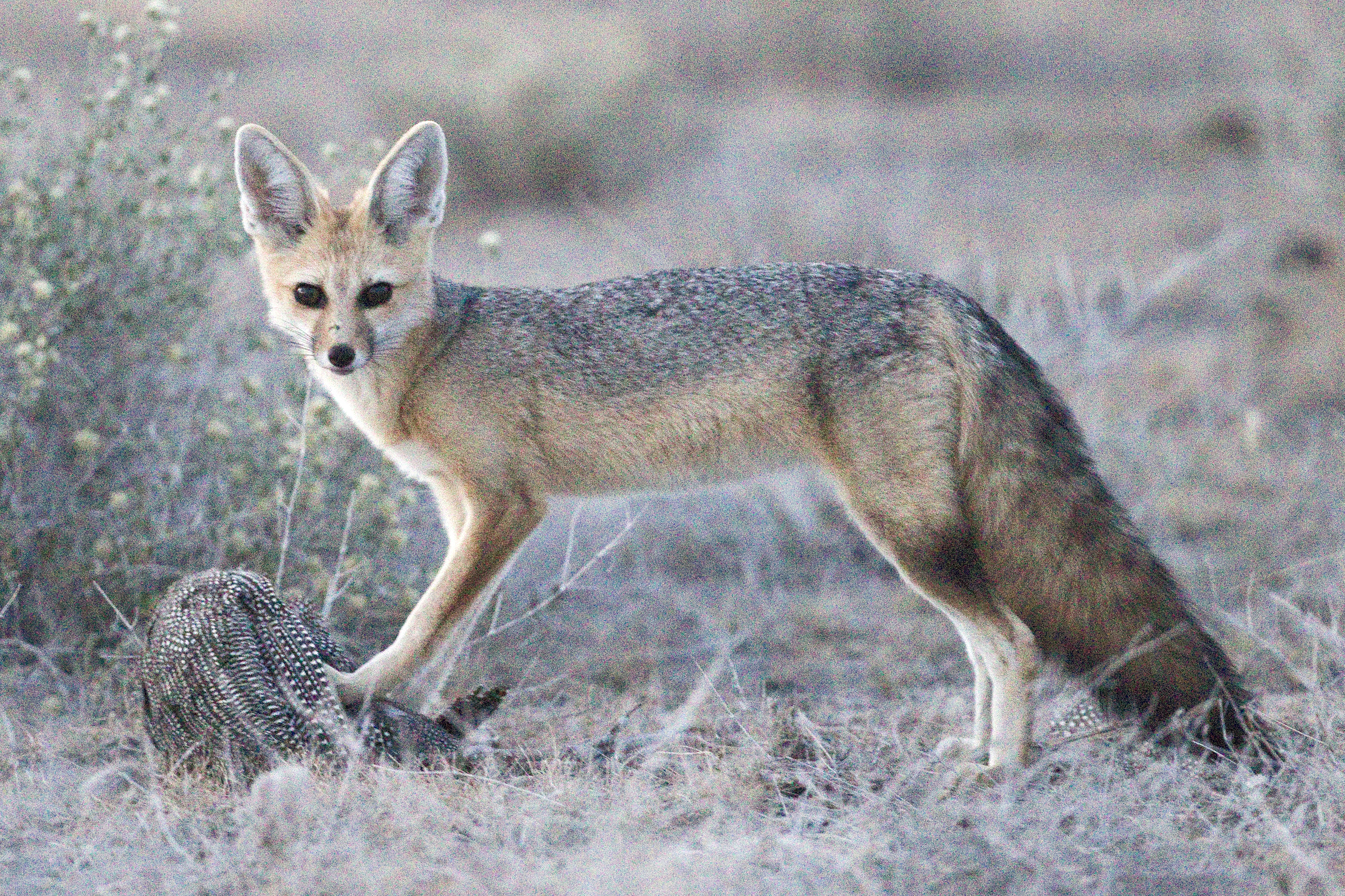 Cape fox in Etosha National Park